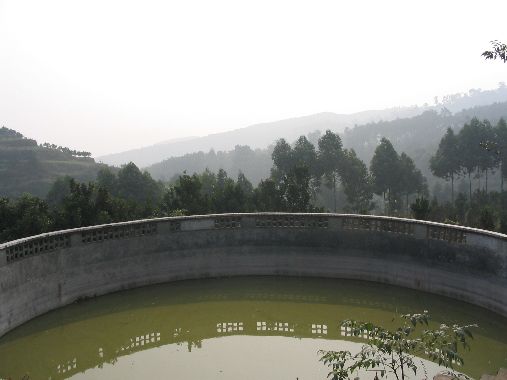 Micro-hydro project in mountains outside Chengdu, Sichuan, China. This is one of a series of connected, rain-fed tanks. The concrete tanks and pipes supply water while reducing the risk of Schistosomiasis infection.